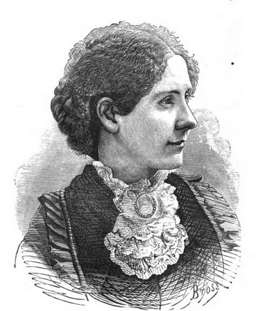 Sarah Knowles Bolton